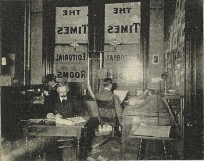 "Quarters of the news editor", one a group of four photos in brochure Seattle and the Orient (1900) collectively captioned "The Seattle Daily Times—Editorial Department." This is part of a long section on The Seattle Daily Times, publisher of the brochure/booklet. The newspaper is now known simply as the Seattle Times. In 1900, the Times offices were in the Boston Block on the southeast corner of Second Avenue and Columbia Street.